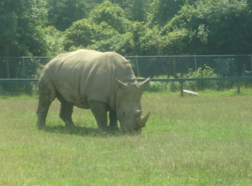 A rhino at the African Lion Safari. Taken by RJ on July 31, 2006.